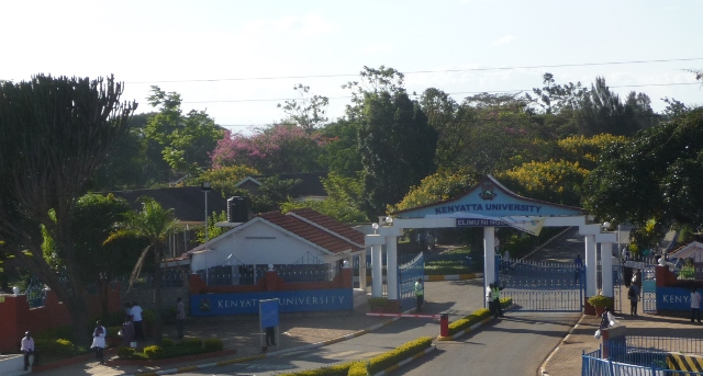 Kenyatta university, main Campus outside Nairobi along Thika Road